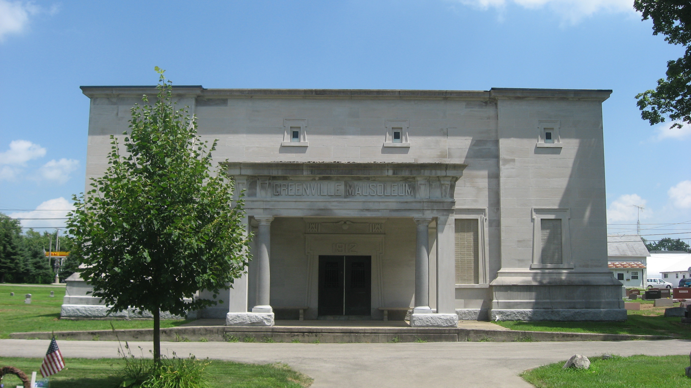 Front of the Greenville Mausoleum, located along West Street in the city cemetery of Greenville, Ohio, United States. Built in 1913, it is listed on the National Register of Historic Places.